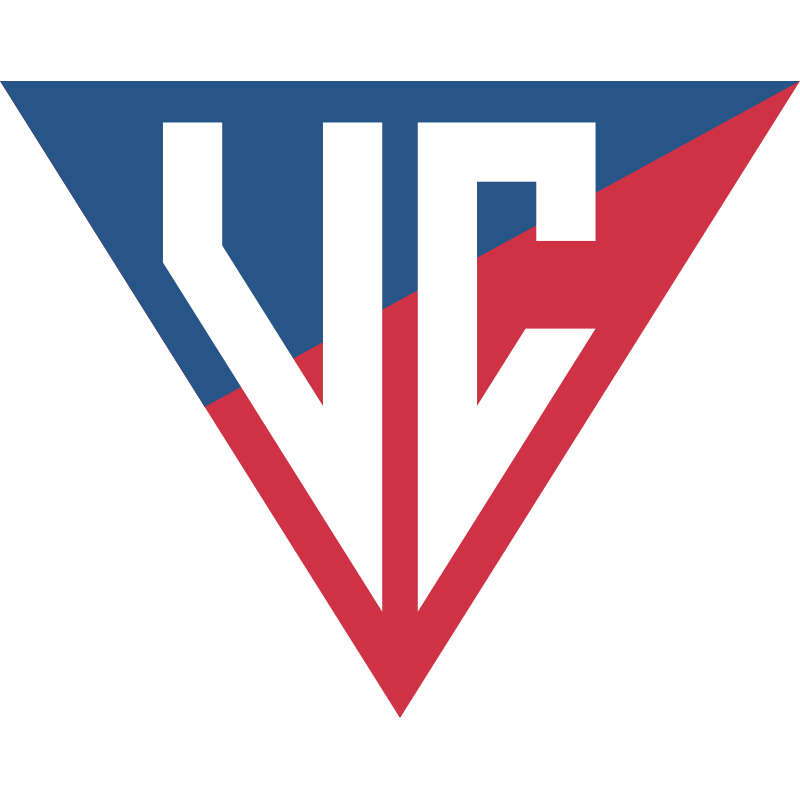 LDU escudo 1918-1939